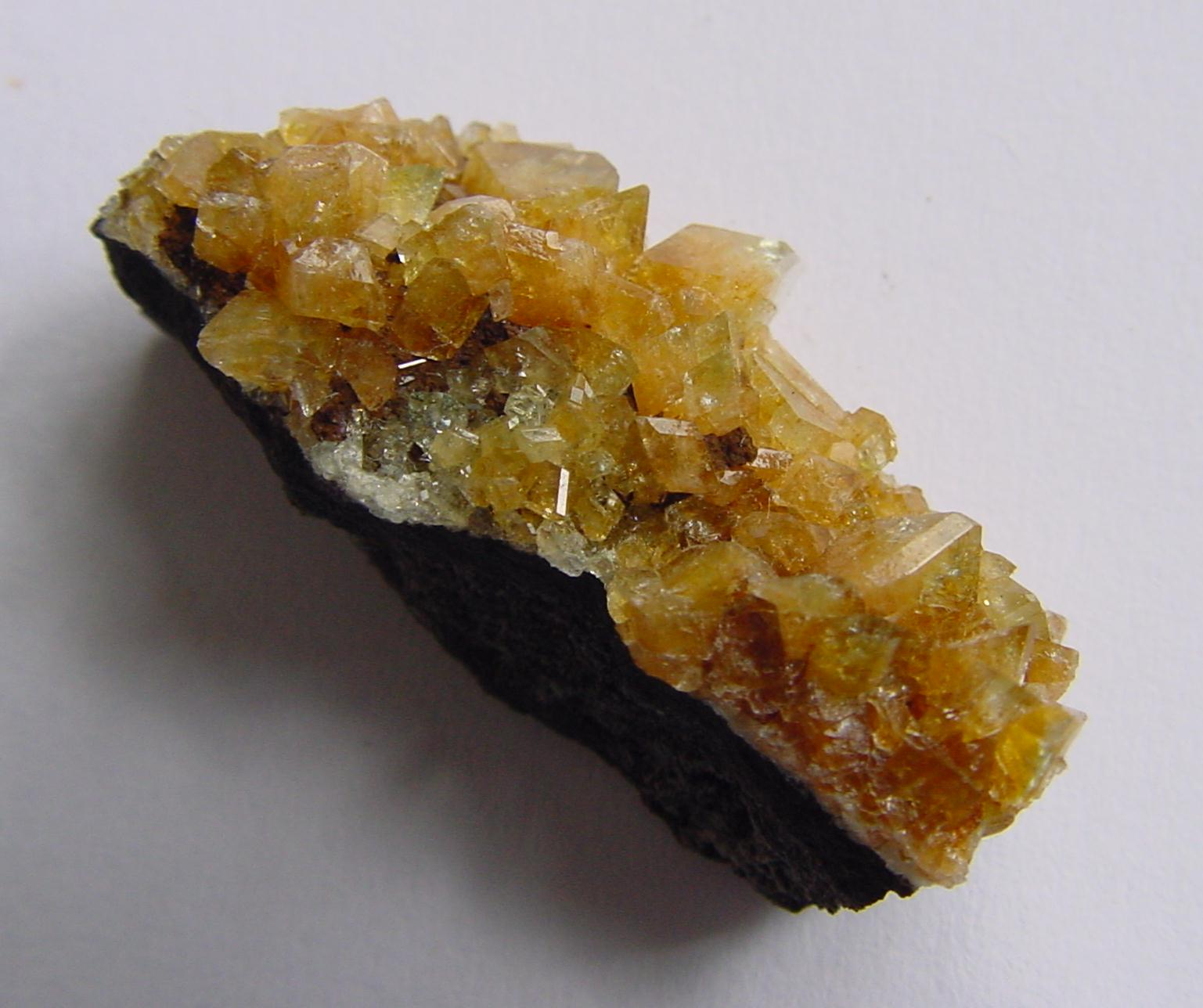 Augelite from the Dawson Mining District, Yukon, Canada. Specimen size 2.6 cm